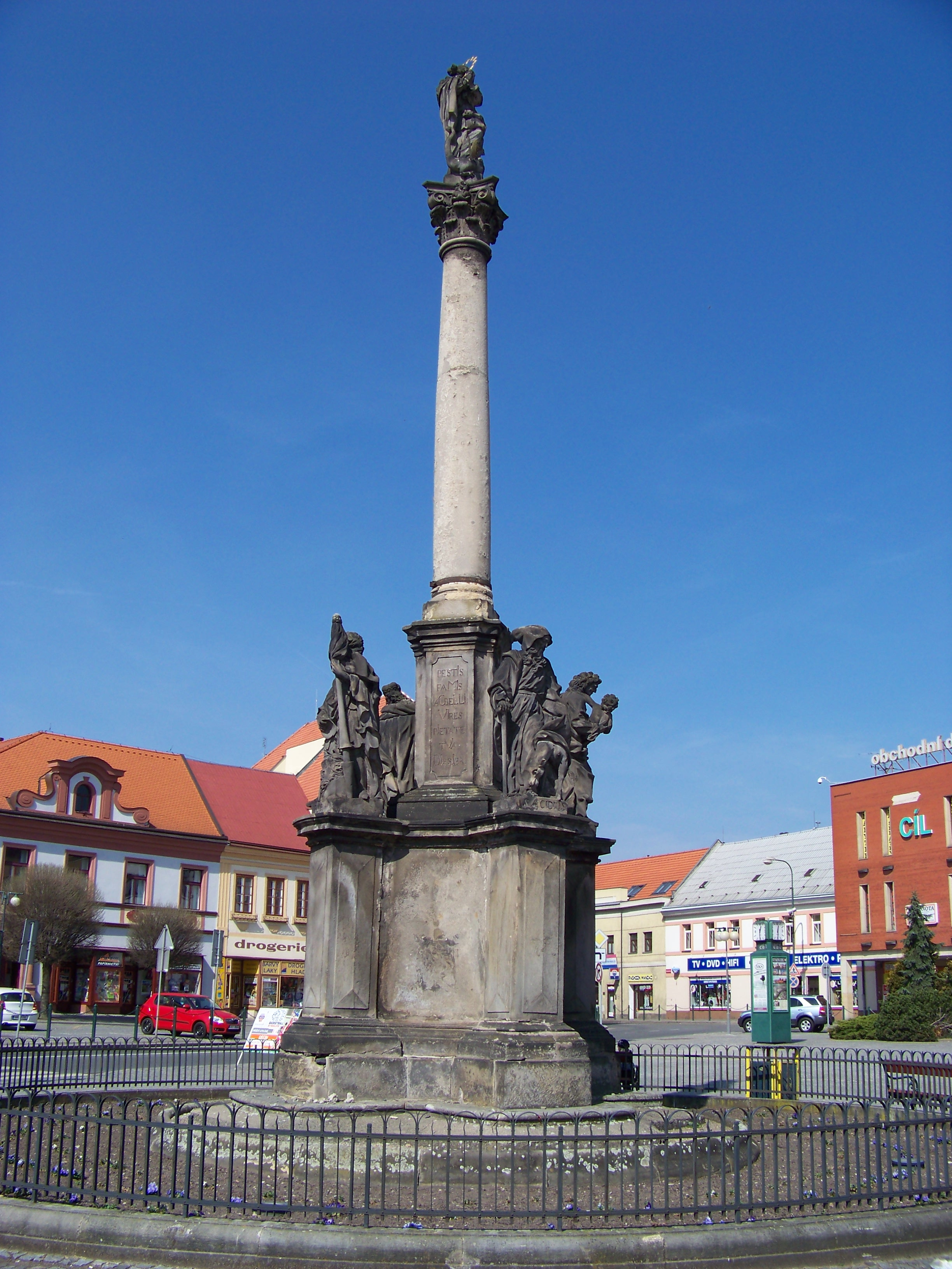 Nymburk, Central Bohemian Region, the Czech Republic. Přemyslid's Square, Maria column.